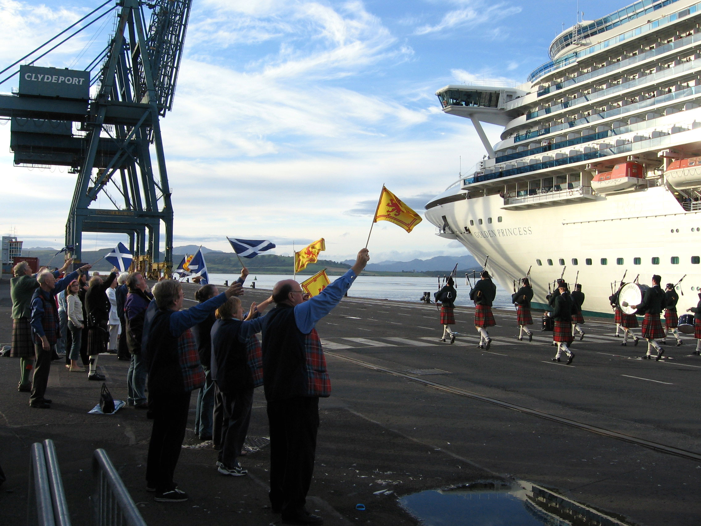 Friendly locals and a school pipe band bid farewell to Cruise ship passengers as the Princess Cruises Golden Princess leaves Clydeport Ocean Terminal, Greenock, Scotland and sails down the Firth of Clyde.